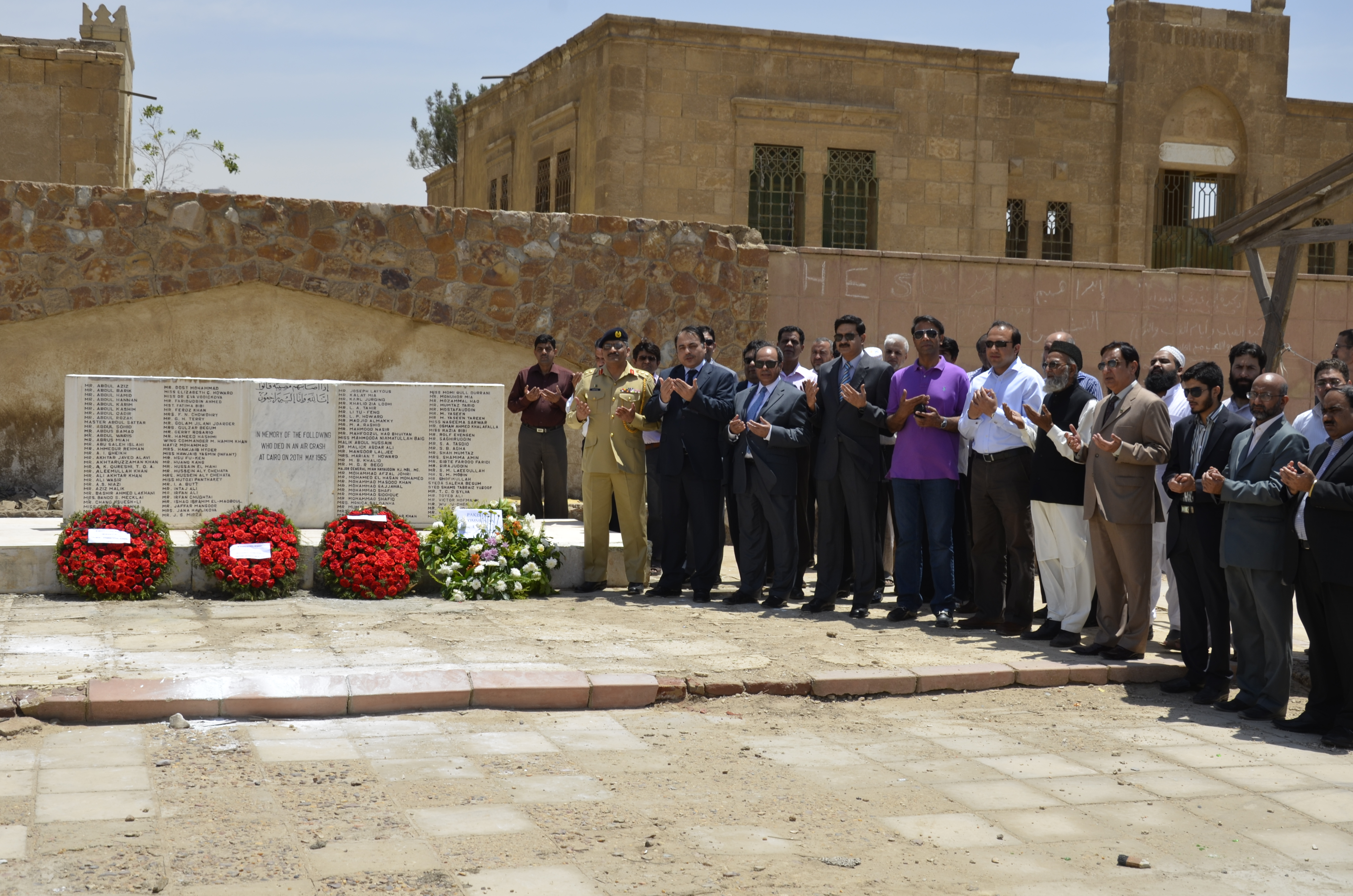 Members of Embassy of Pakistan and Pakistani Community in Egypt commemorating the anniversary of crash victims - 20 May 2013